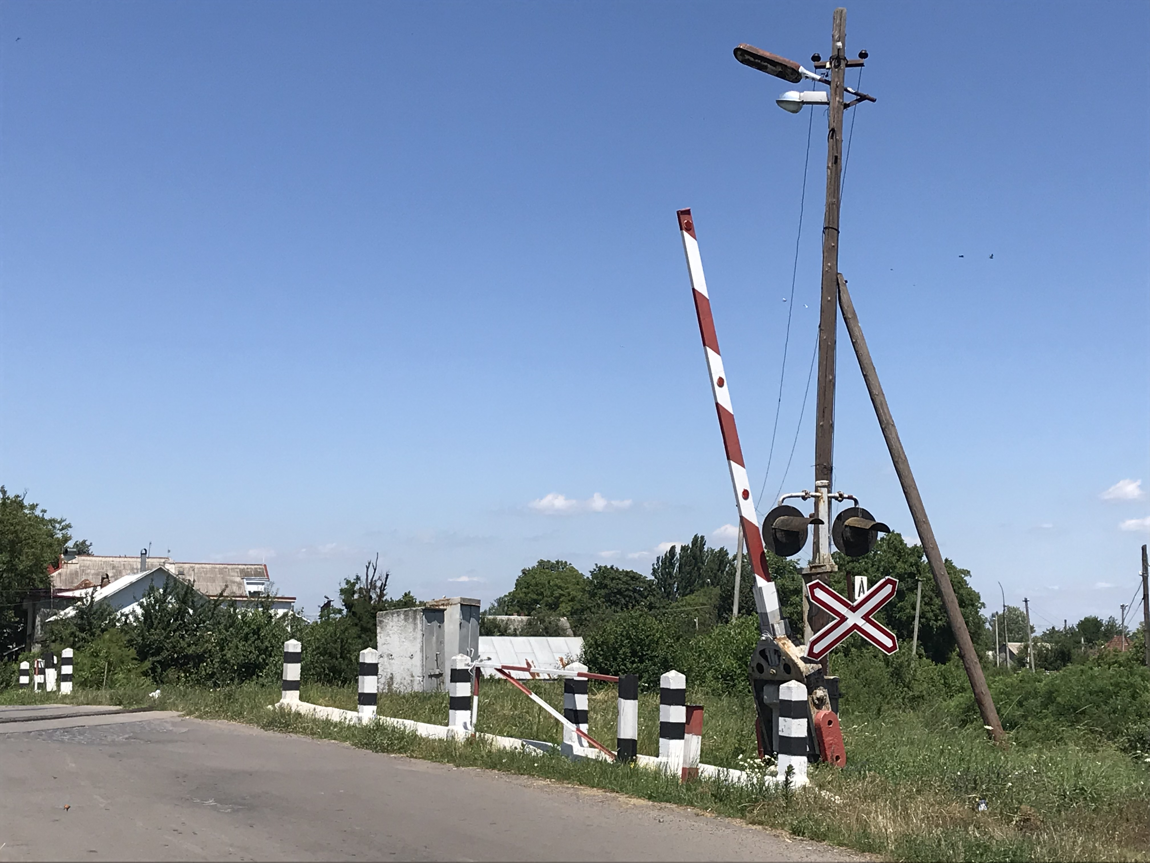 Soviet era railroad crossing in Chop, Ukraine.